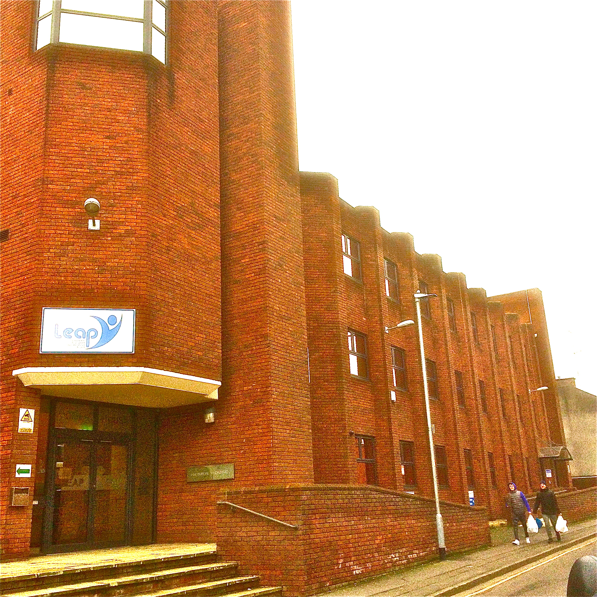 Homer House, Monson Street, Lincoln by Sir Frederick Gibberd, 1973